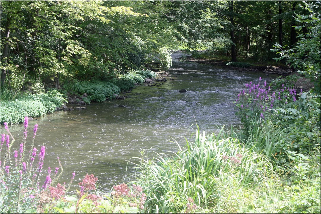 A photo of the Canandaigua Outlet along Water Street near Budd Park in Shortsville, New York.